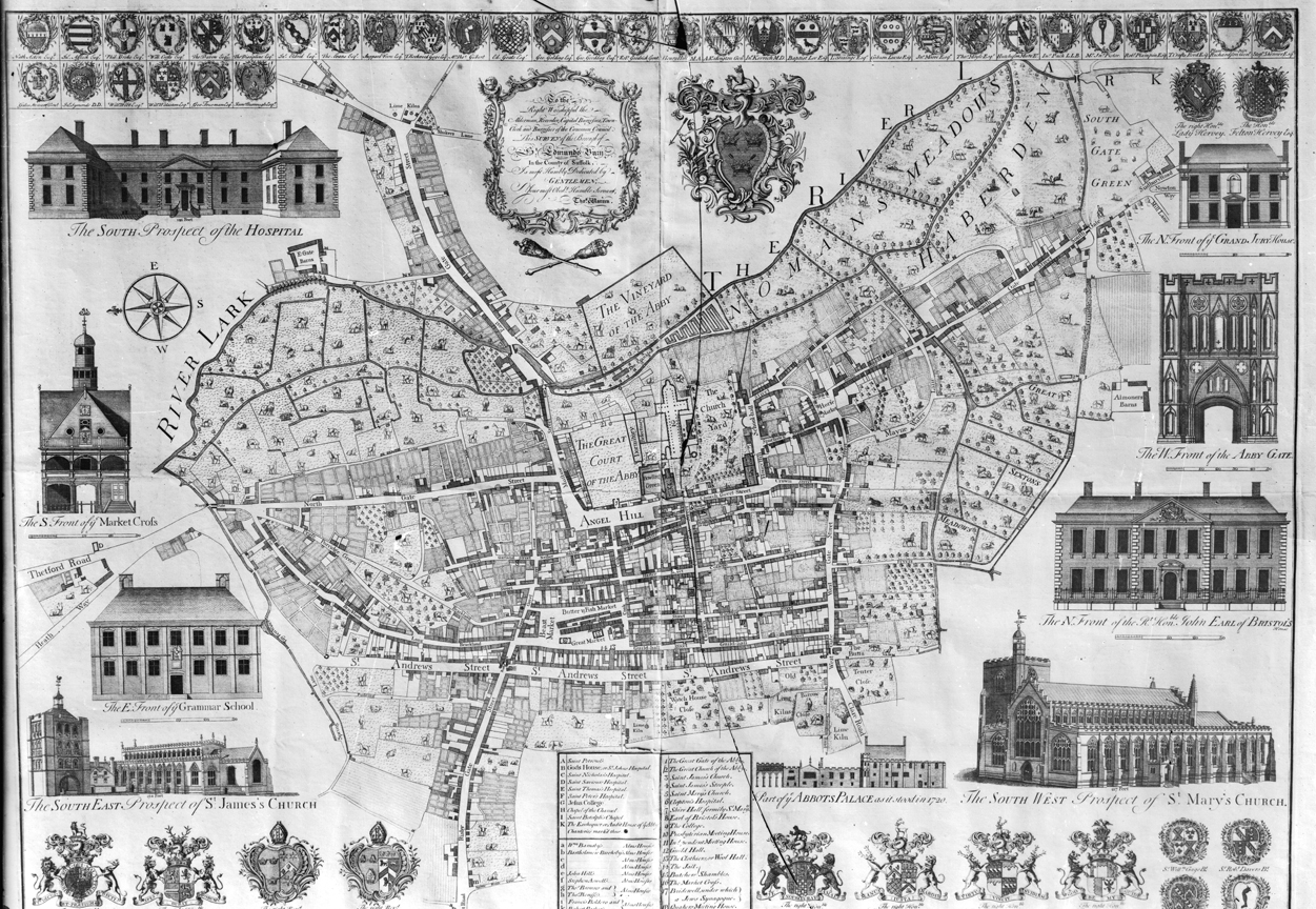 Thomas Warren's Map of Bury St Edmunds, Suffolk, England. Image courtesy of the Bury St Edmunds Past and Present Society, Spanton-Jarman Collection, Bury St Edmunds, Suffolk.